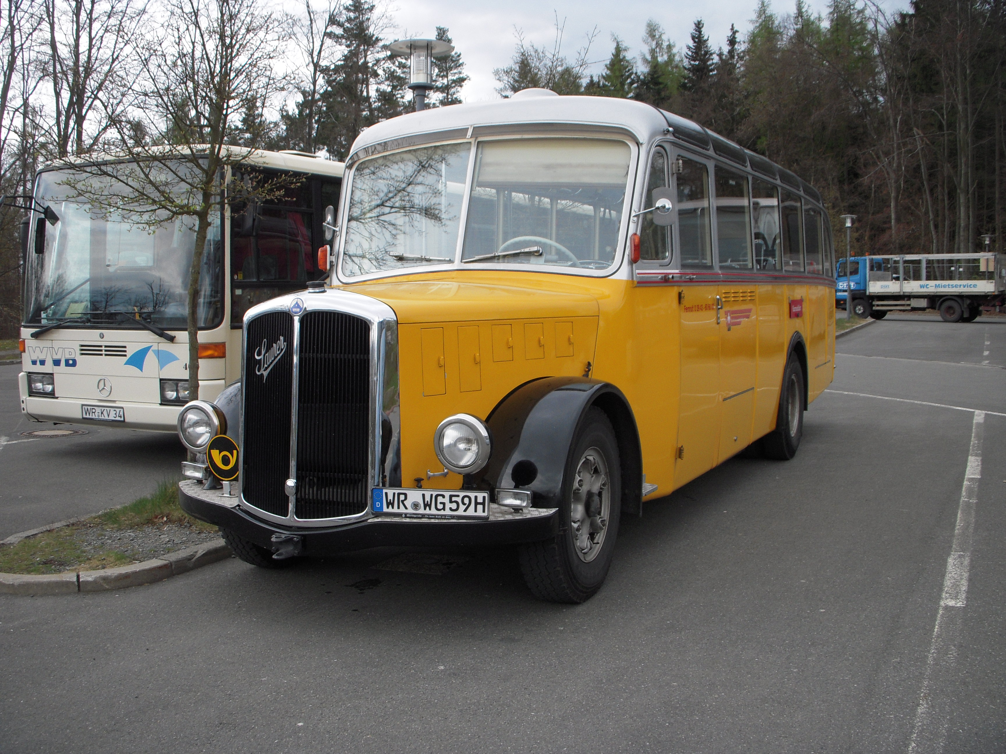 Saurer Postbus at the Hexentanzplatz in Thale, Harz, Germany. April 26, 2012.